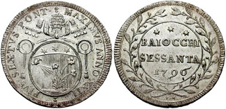 Italy, Papal States. Pius VI. 1775-1799. AR 60 Baiocchi (16.74 gm). Rome mint. Dated 1796. PIVS SEXTVS PONT MAX ANNO XXII, Braschi arms ***BAIOCCHI SESSANTA 1796 within olive-wreath. CNI XVII pg. 220, 333; Muntoni IV pg. 26, 62; Berman 2973.